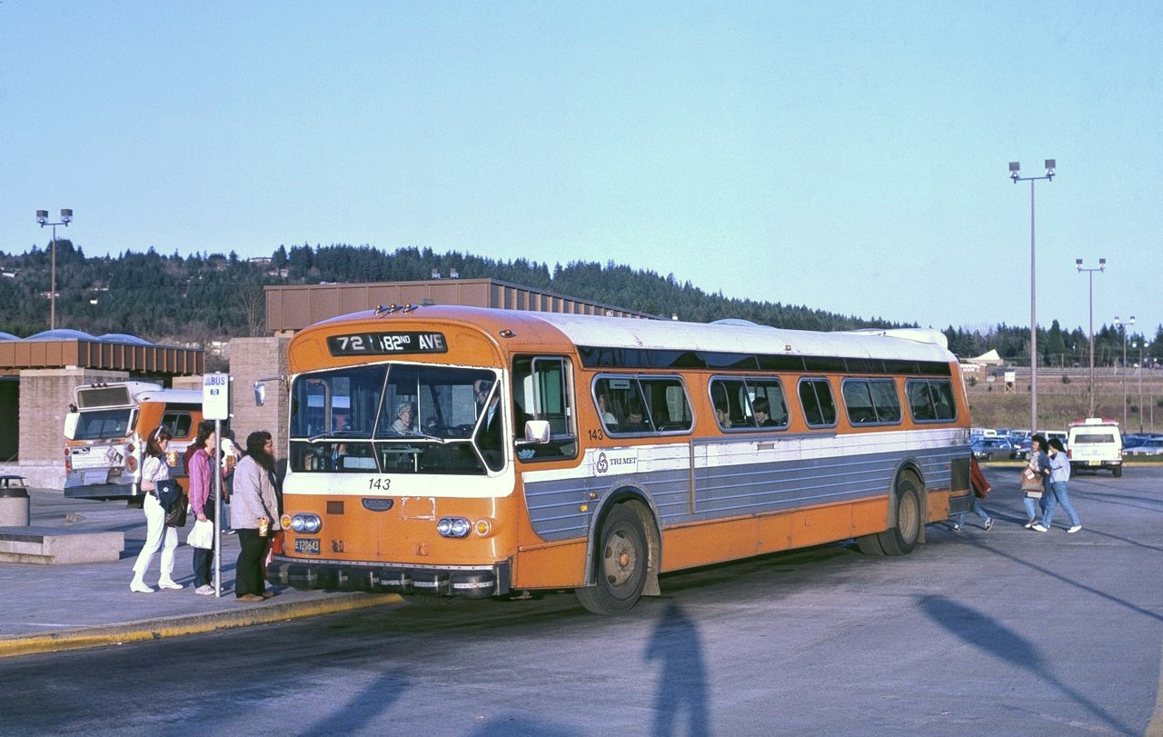 TriMet's first Clackamas Town Center Transit Center opened in 1981 and was located on the north side of the shopping mall. In this 1985 photo, bus No. 143 (a 1974 Flxible "New Look" bus) is loading on line 72-82nd Avenue, while another bus is stopped on the other side of the TC's central loading island. This view is looking east, and the mall was located just out-of-frame to the right. This transit center facility closed in June 2006, due to mall expansion. A temporary replacement TC that was located along a new entrance road immediately to the east of the old off-street TC closed in late 2007, in connection with plans to build a new Clackamas Town Center TC in a different location, to the east of the mall, as part of the construction of the MAX Green Line light rail line. The new TC opened in 2009, and in the interim, buses laying over at Clackamas Town Center temporarily used a parking lot south of the planned new TC, which area was not open to passengers.